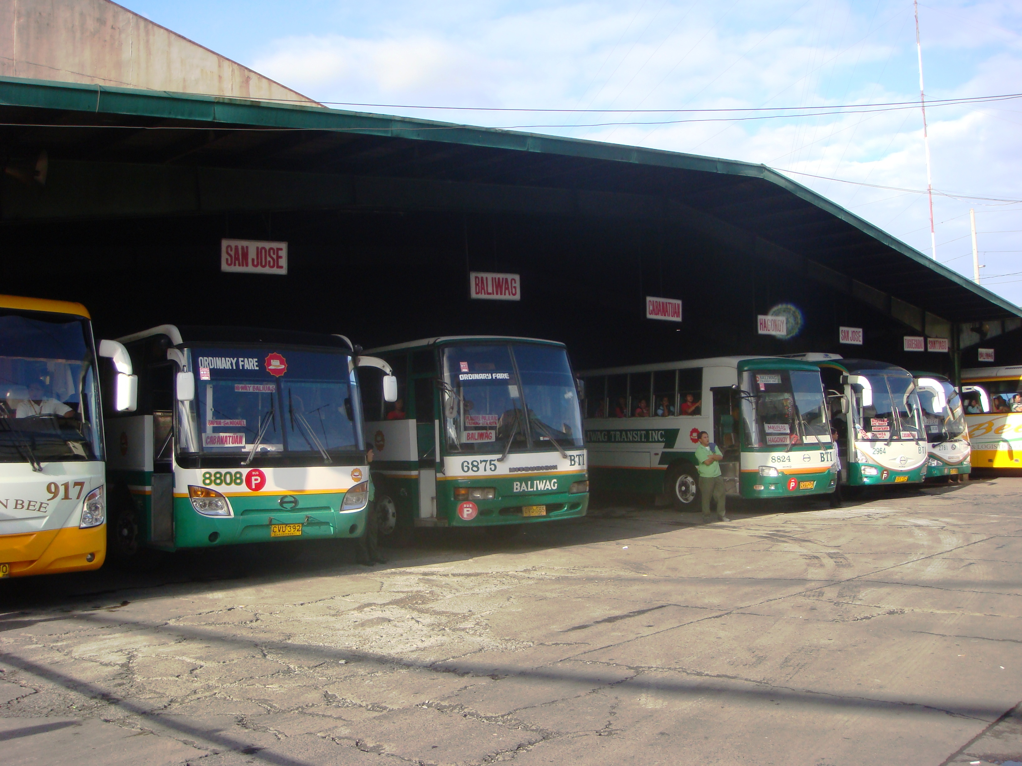 Fleet of buses at Baliuag Transit Bus Terminal (Cubao, Quezon City).